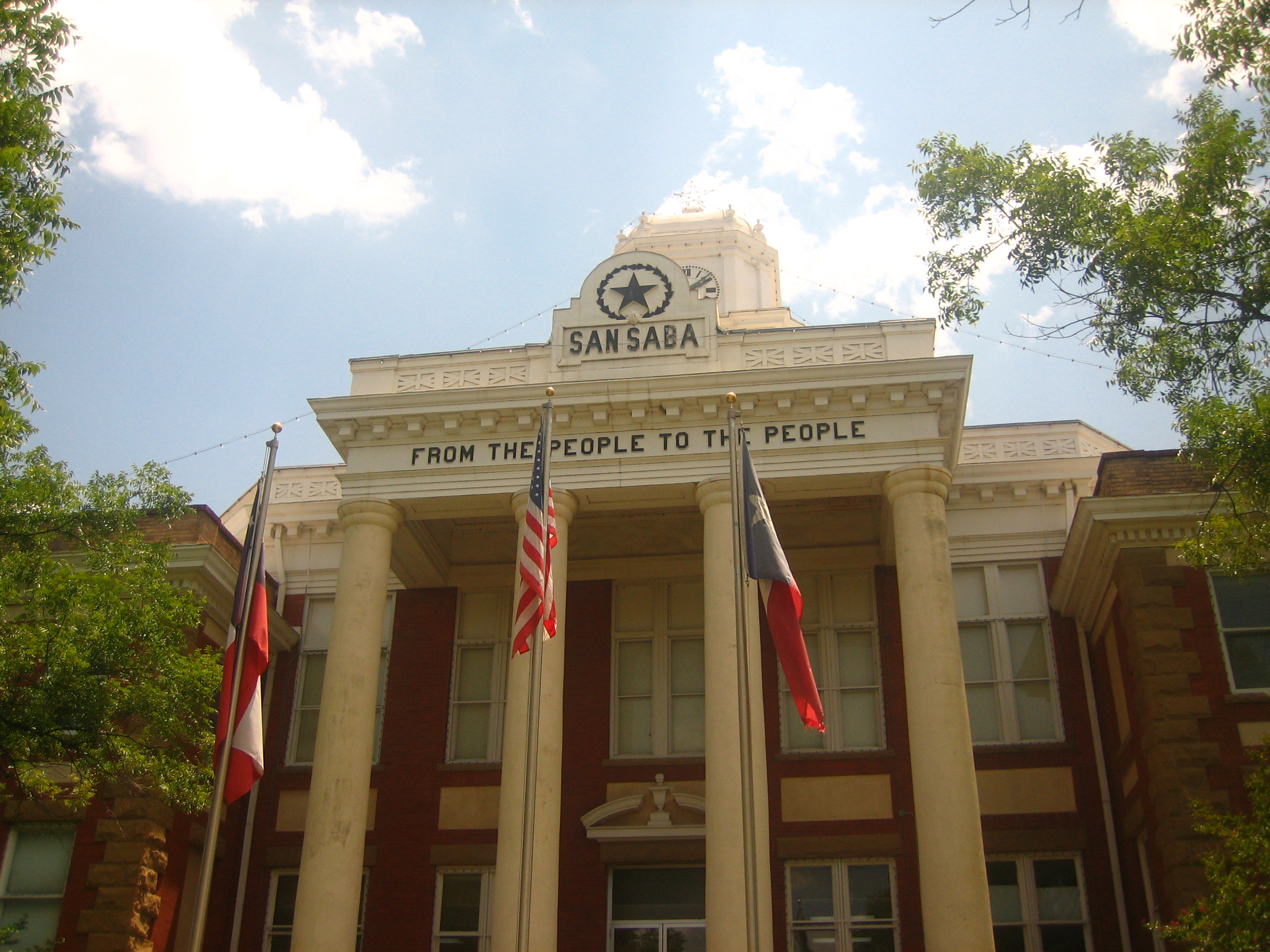 The San Saba County Courthouse in San Saba. I took photo on July 17, 2008.Billy Hathorn (talk) 03:57, 26 July 2008 (UTC)